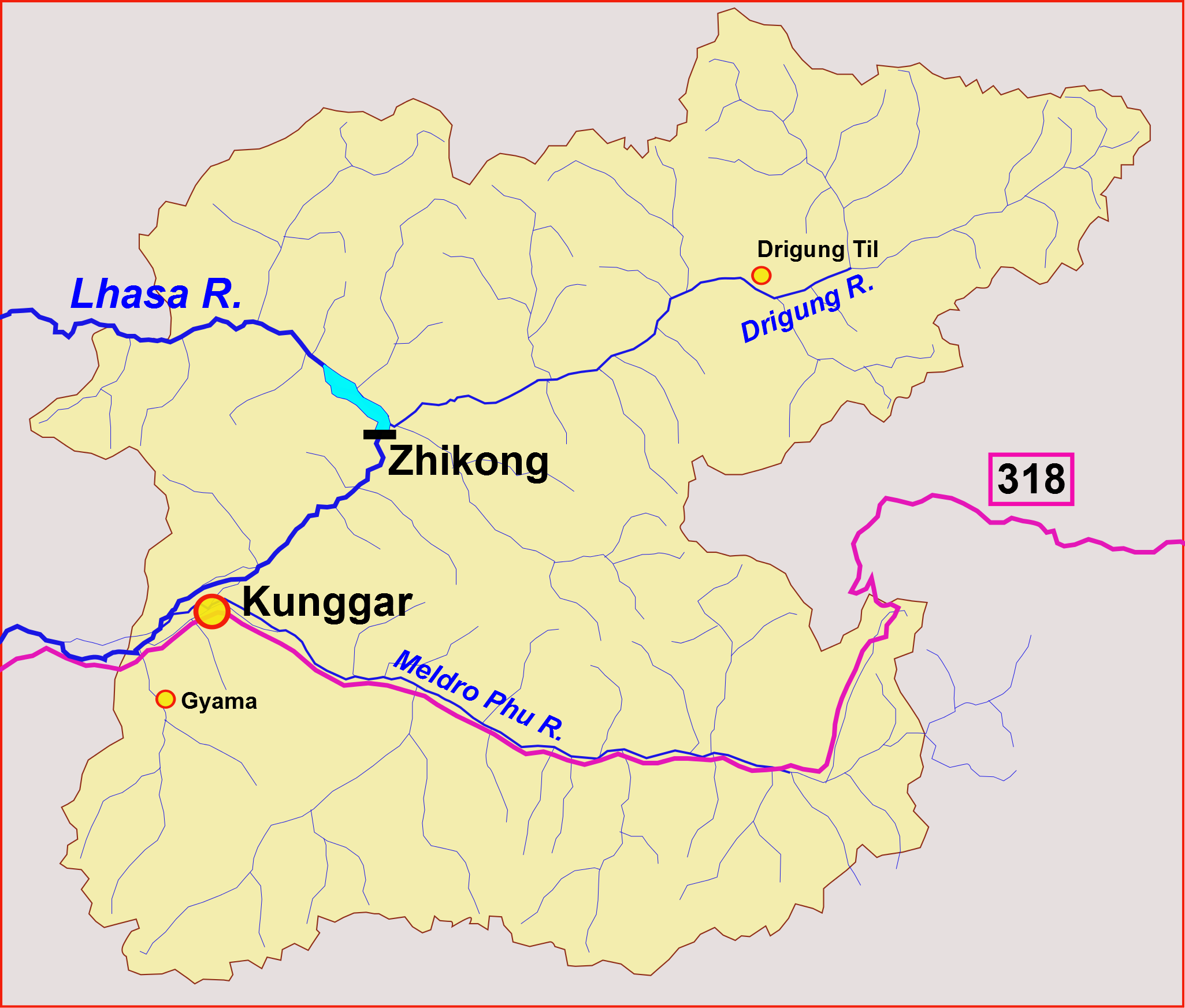 Sketch map of Maizhokunggar County, Lhasa, Tibet